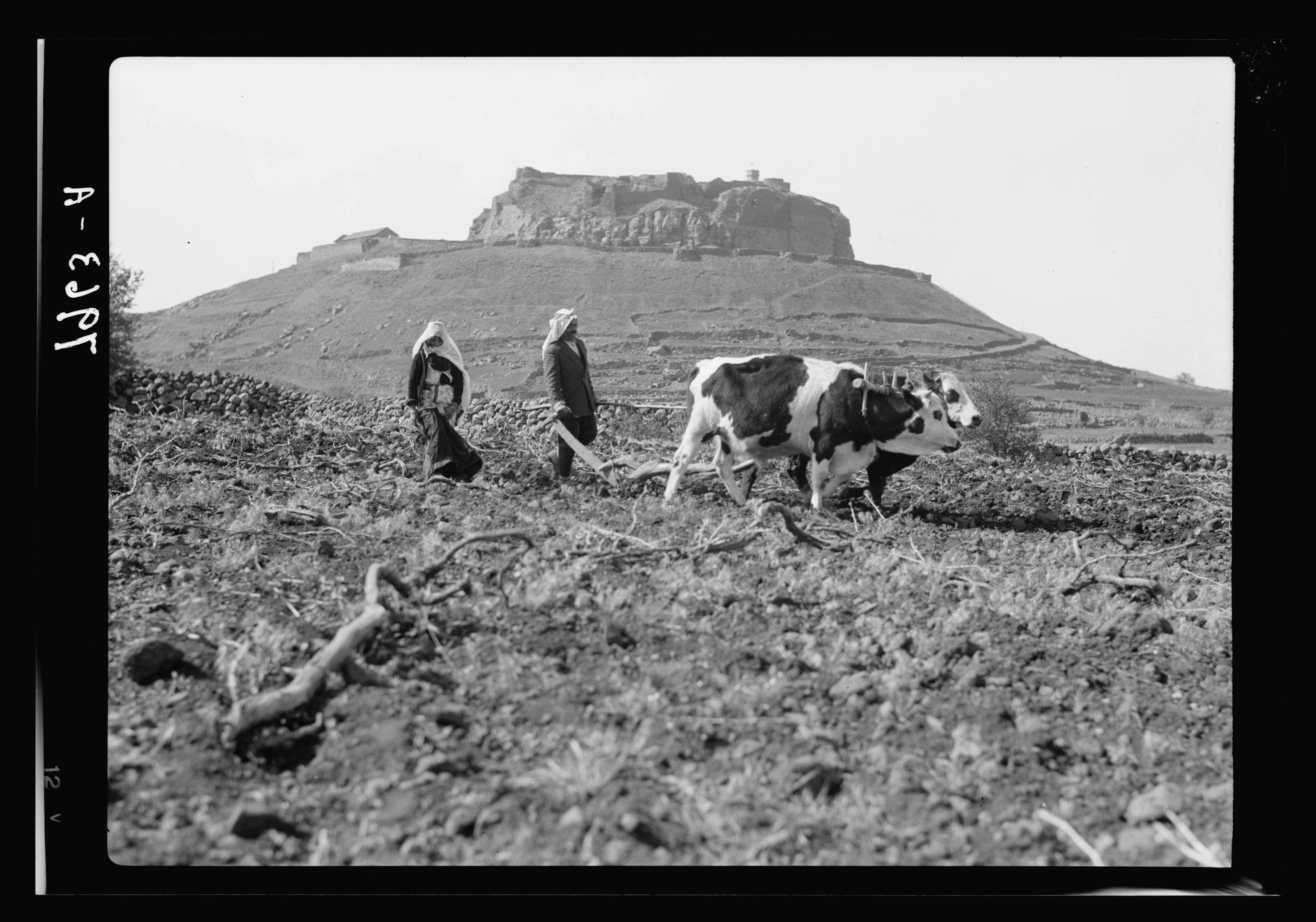 Title: Jebel el-Druze & Hauran. Salkhad. A ploughman showing castle-hill in distance Abstract/medium: G. Eric and Edith Matson Photograph Collection Physical description: 1 negative